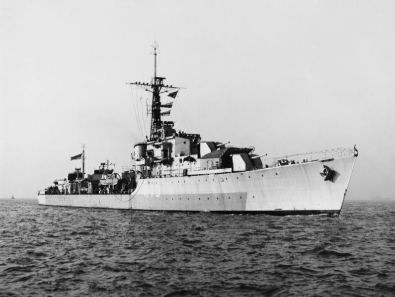 Photograph of British C class destroyer HMS Cavalier.